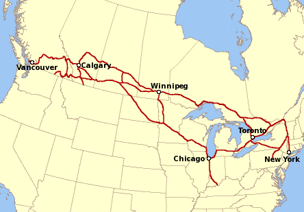 Network map of the Canadian Pacific Railway